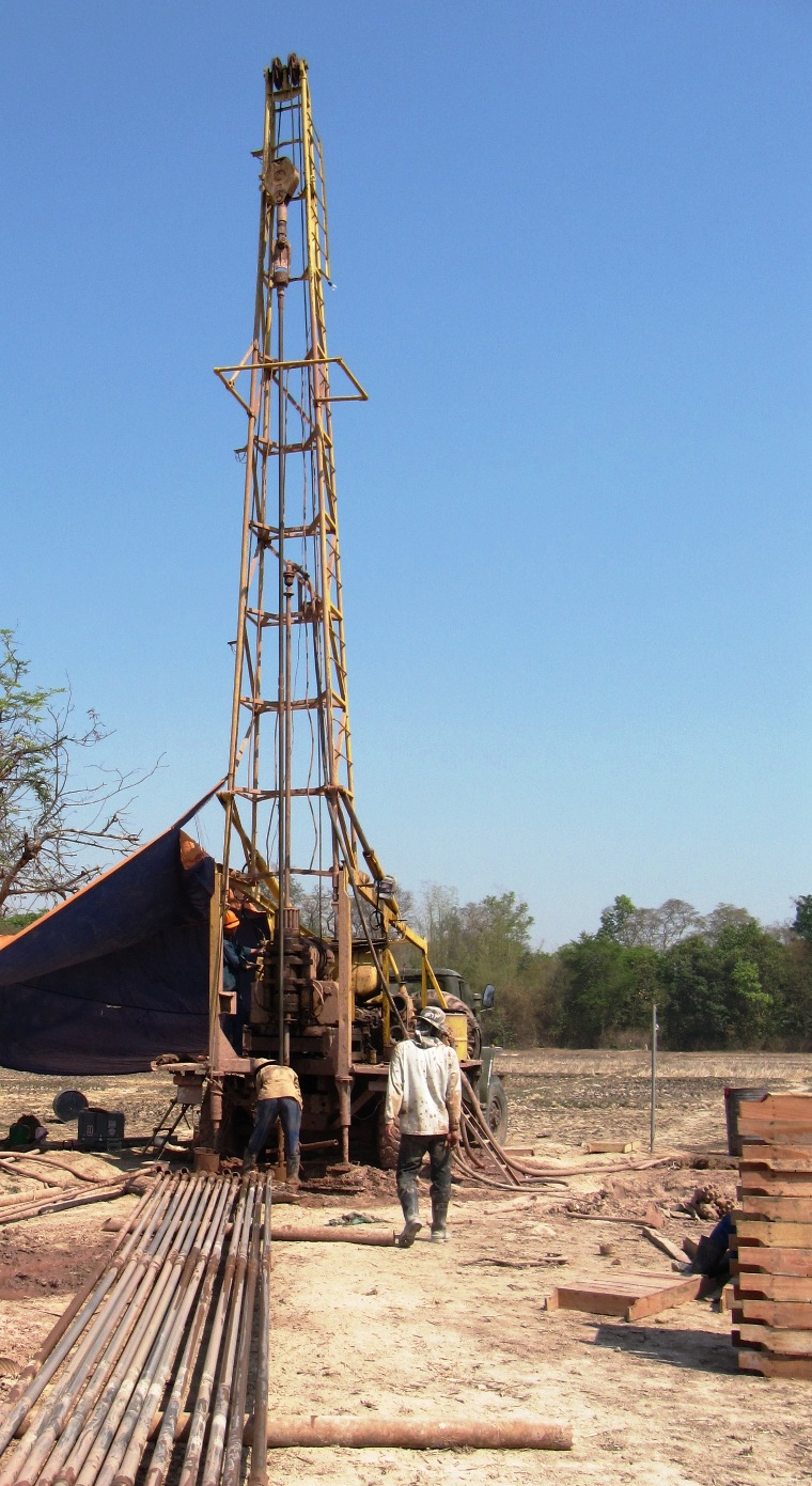 Driller 650m in work